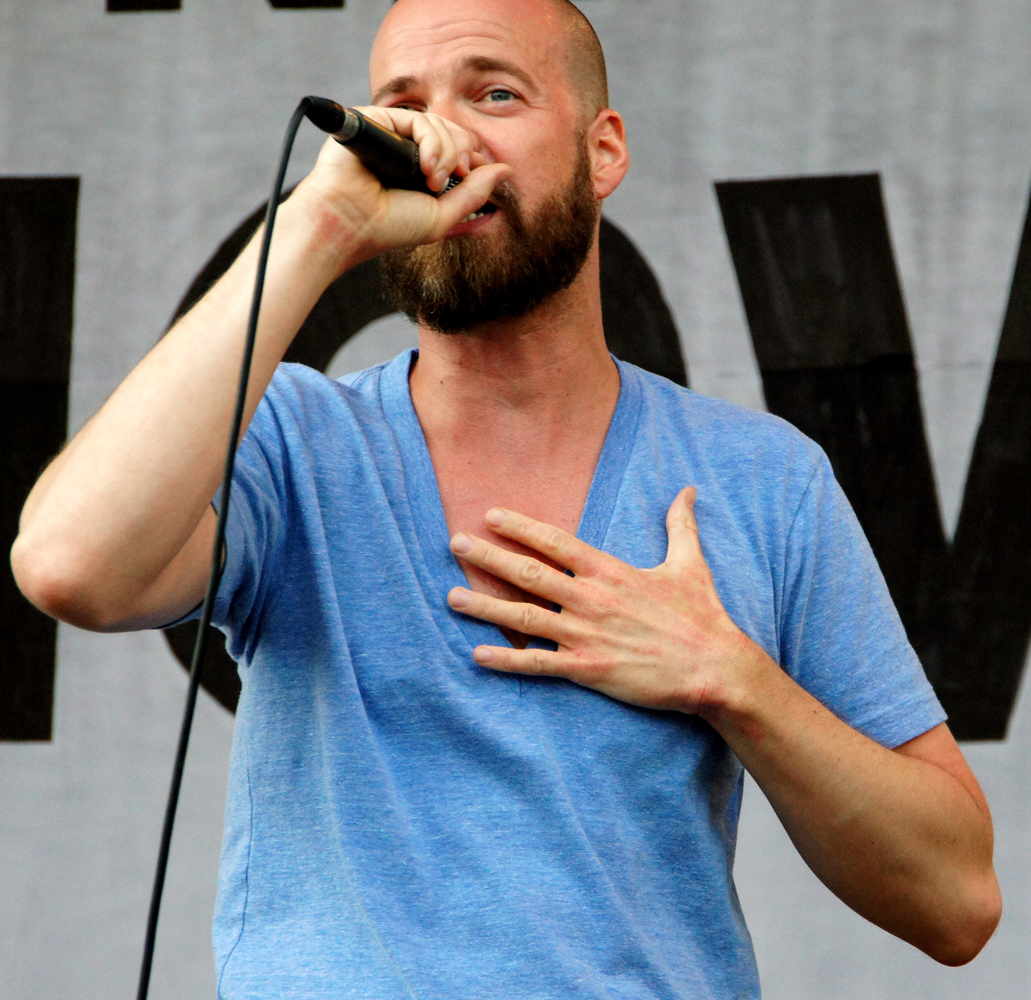 Gernan rapper 'Curse' performing on occasion of 'Europe for Tibet Solidarity Rally' in front of some 10.000, on Vienna's infamous Heldenplatz.